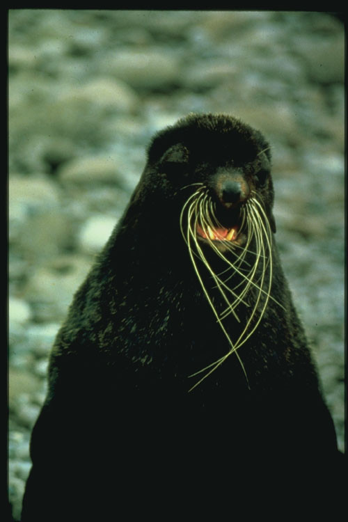 Seal Subject: Seals, Animals Tag: Aquatic Mammals